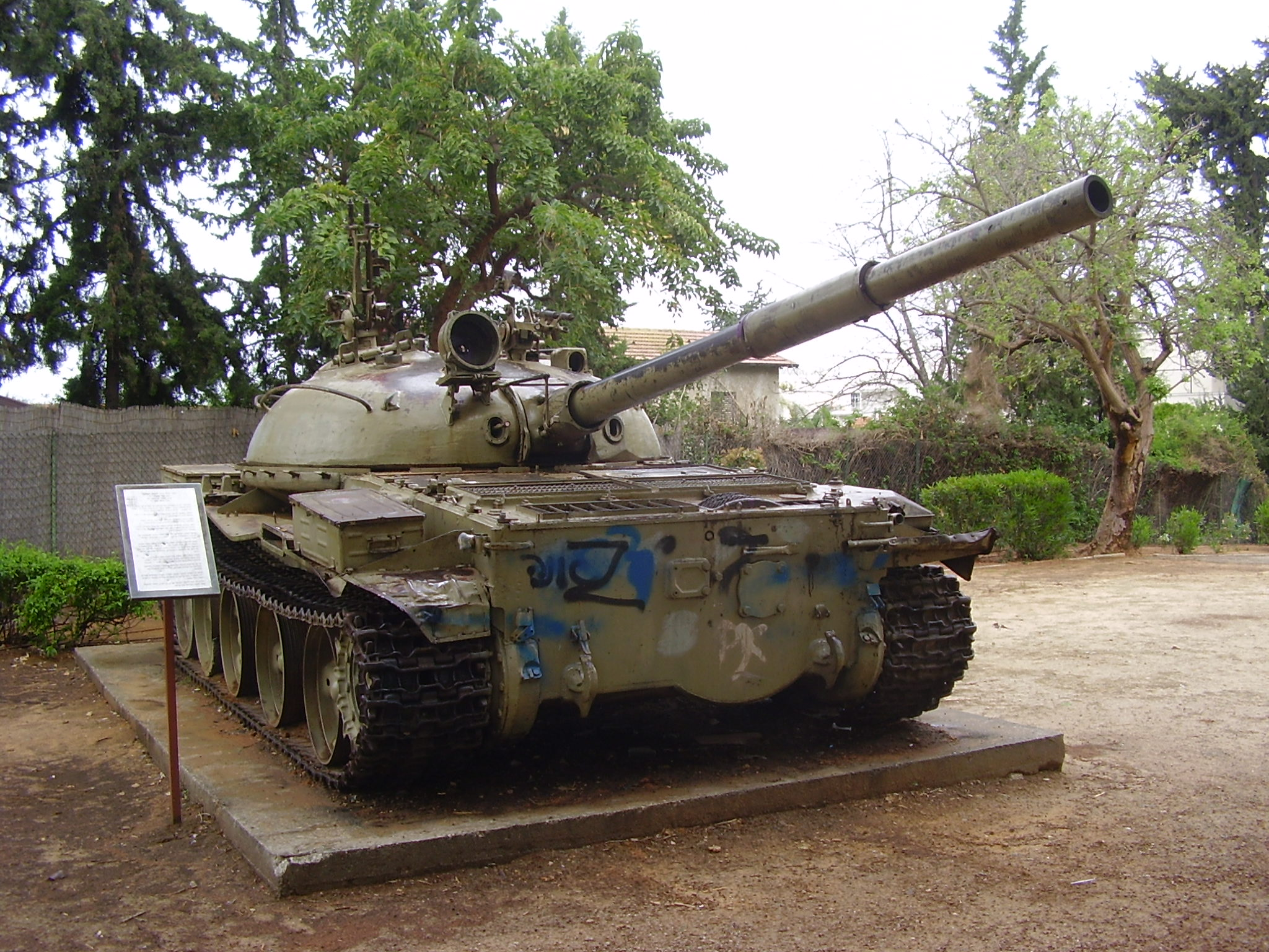 syrian tank t-62 in petakh tikva